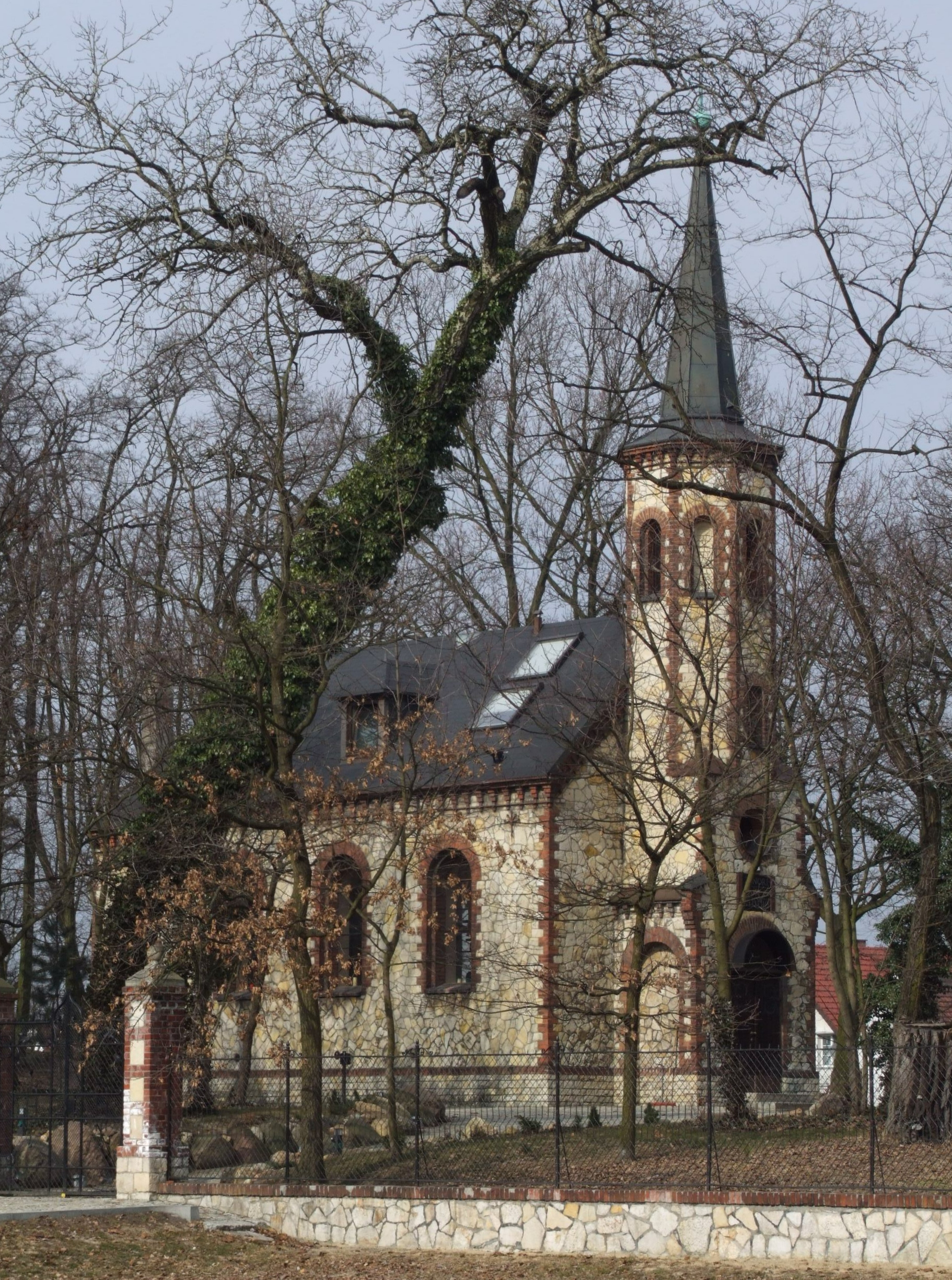 Evangelical church in Rozwadza (Roswadze, 1936–45 Annengrund), Upper Silesia